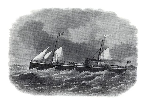 S/S Orlando, Wilson Line of Hull